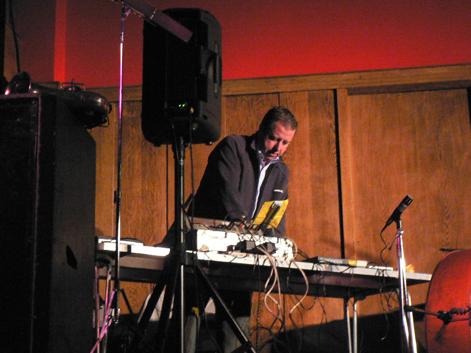 Conway Hall Ashley Wales John Coxon John Tchicai Spring Heel Jack Sunny Murray Han Bennink Orphy Robinson John Edwards